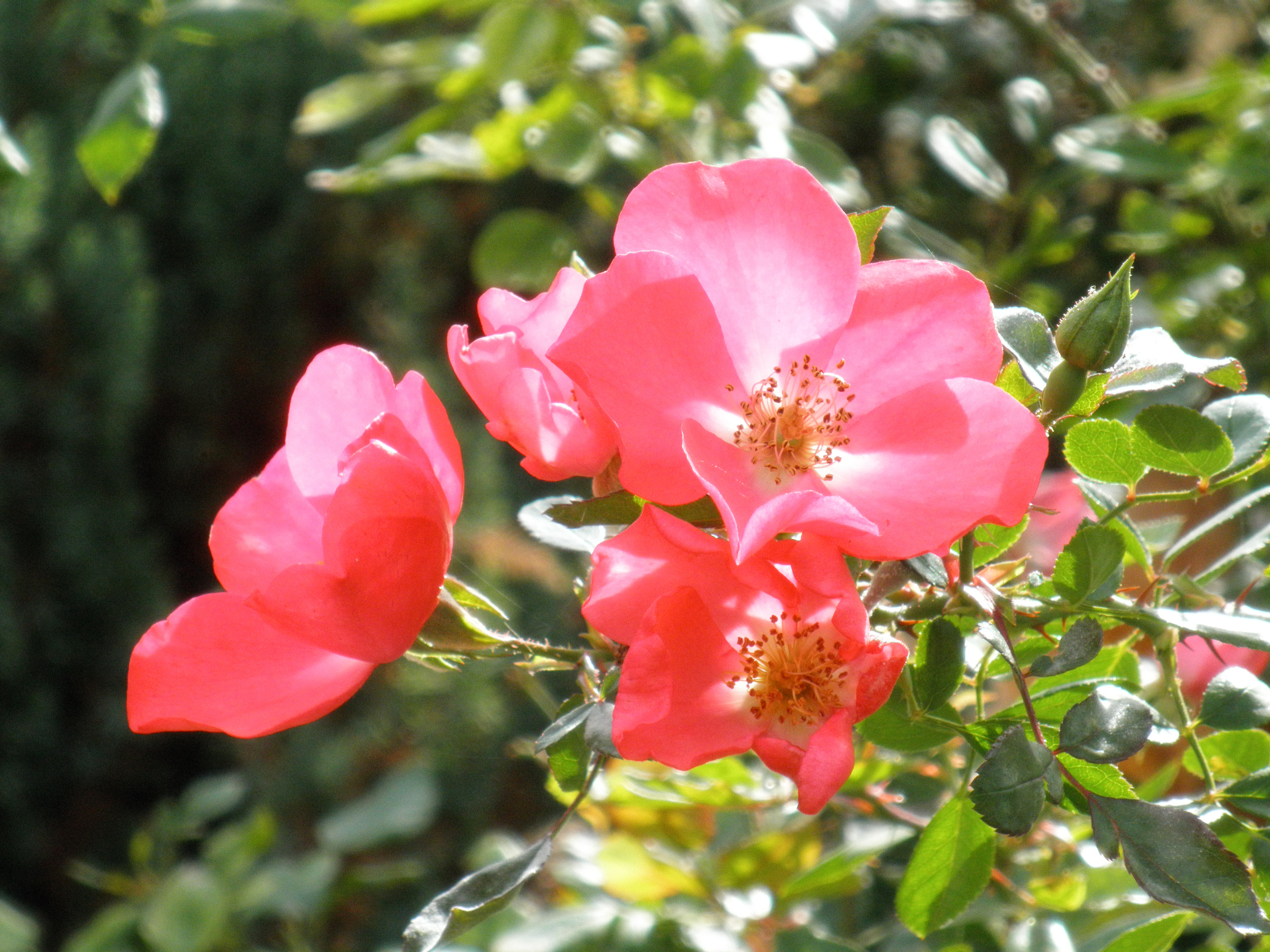 Rosa gallica, Parque Gasset de Ciudad Real, Spain